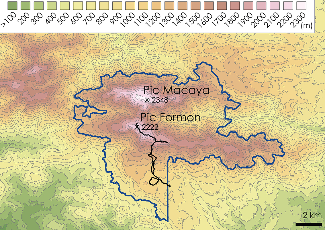 Pic Macaya National park topographic map detail